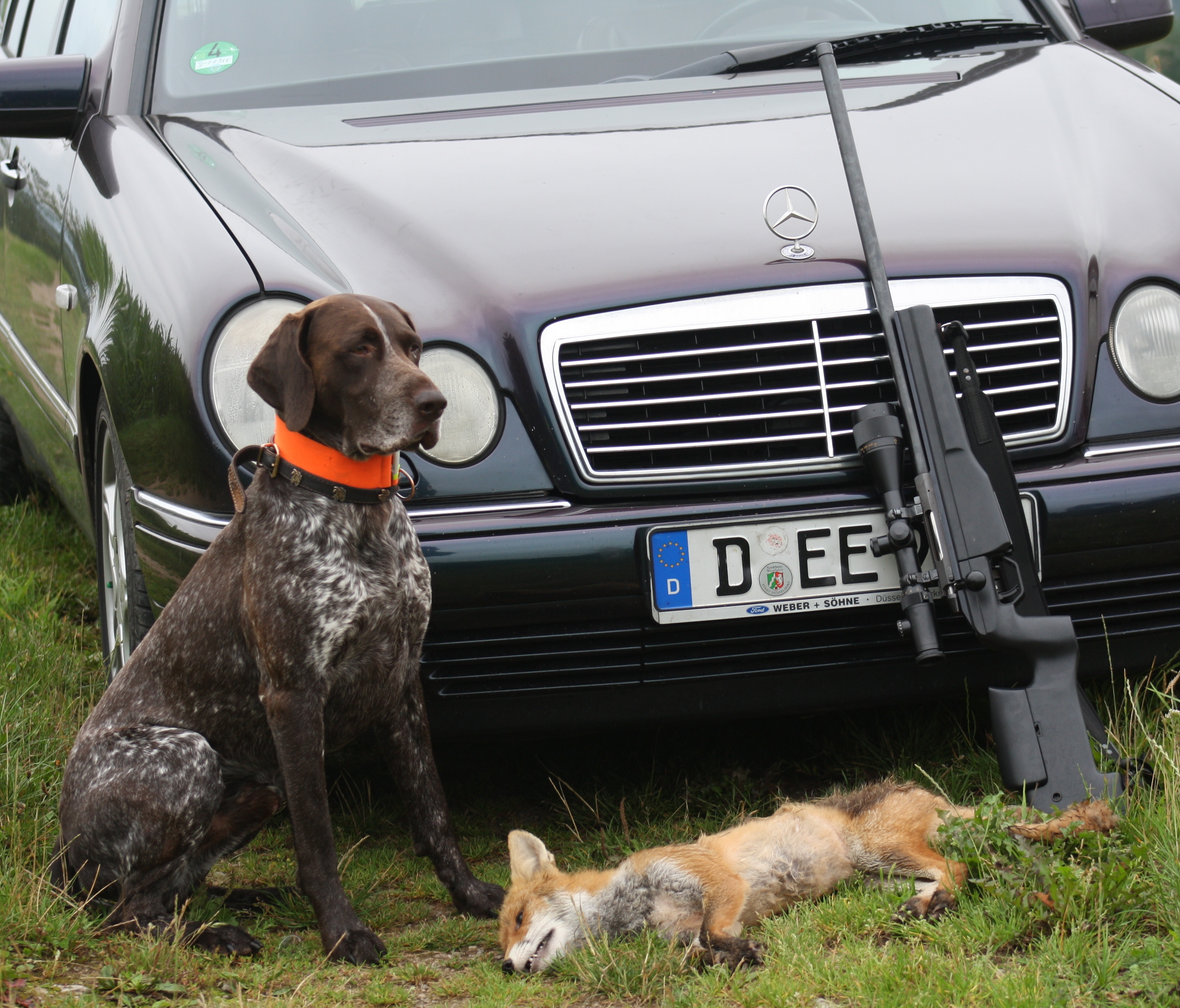 Sako TRG-22 .308 Winchester rifle fitted with a Nightforce 2.5-12x56 telescopic sight. Besides the rifle a hunting dog of the German Shorthaired Pointer breed with a shot red fox.